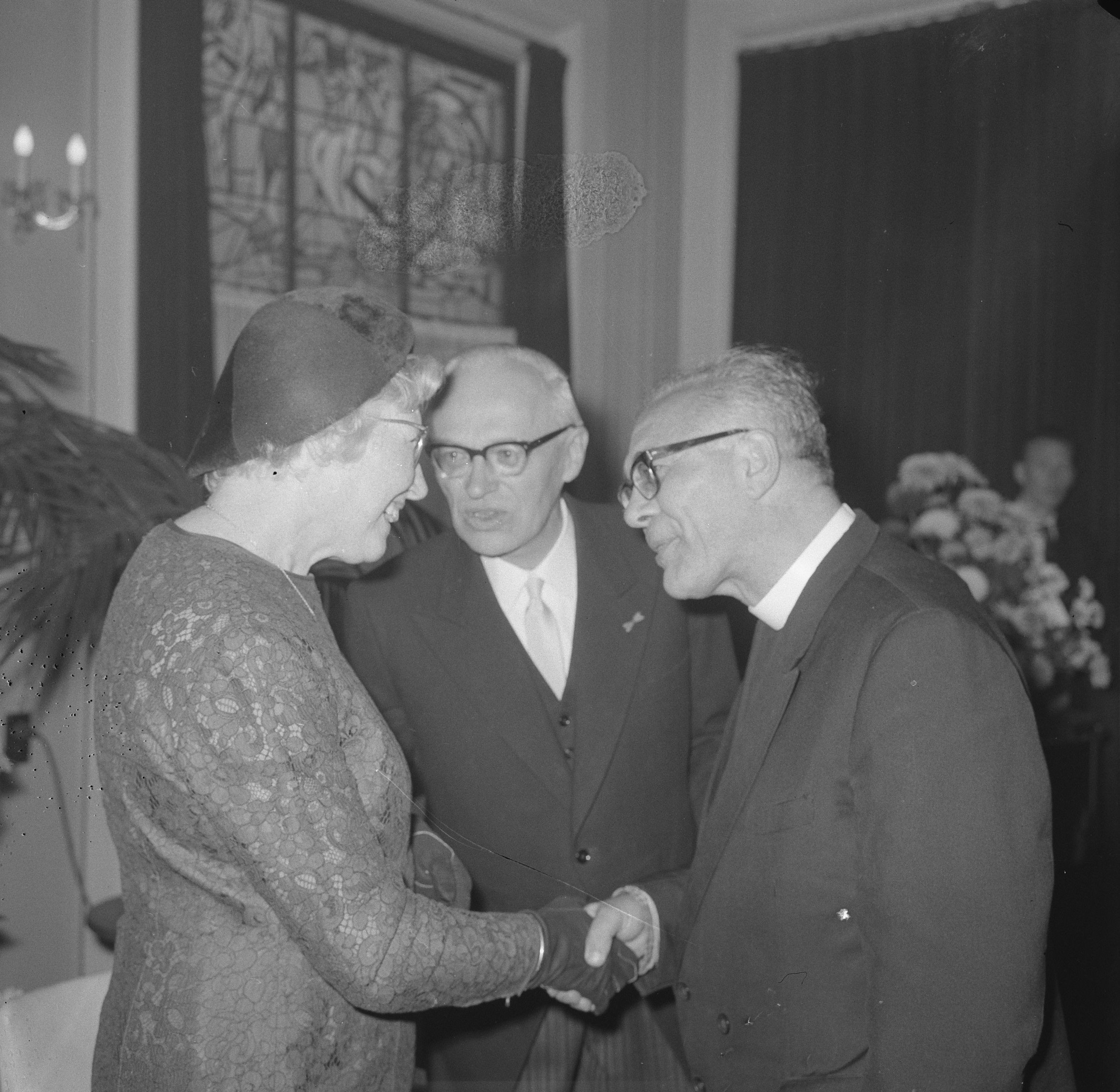 Left to right: Catharina Rippen, Gerrit Cornelis Berkouwer, Jan van Kilsdonk (Amsterdam, 1965)